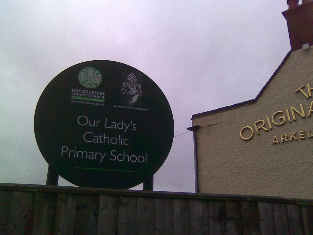 Our Lady's Catholic Primary School Oxford